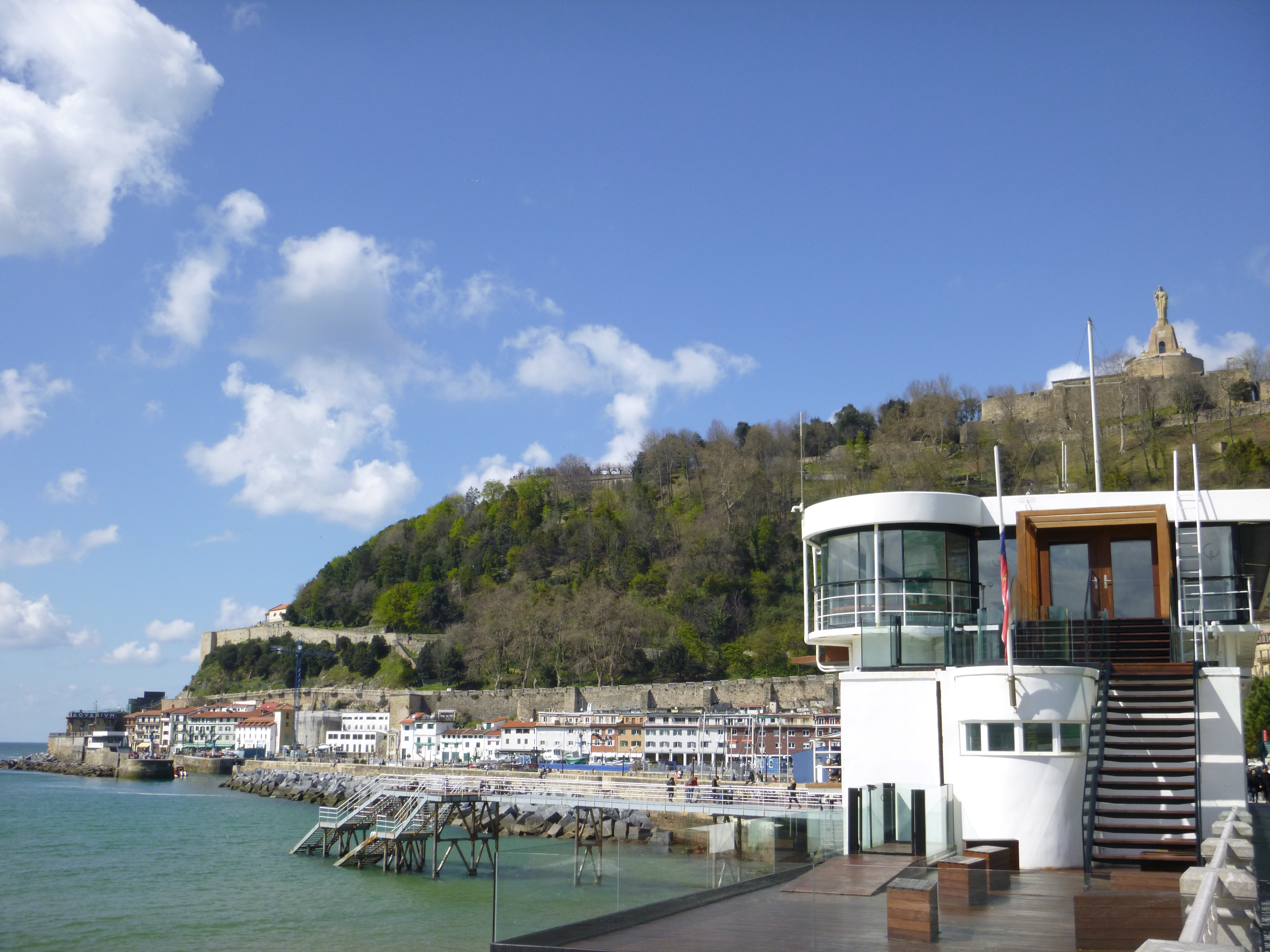 Urfull and port of Donostia